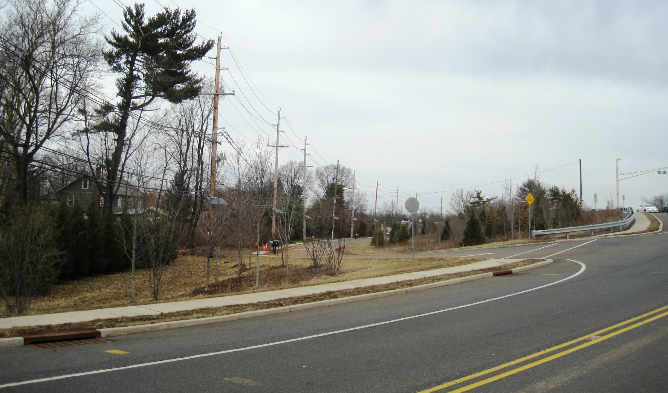 Photo of the unincorporated community of Belle Mead, New Jersey within Montgomery Township, Somerset County. Photo taken on County Route 601 looking north along Trent Avenue (a former alignment of the road).